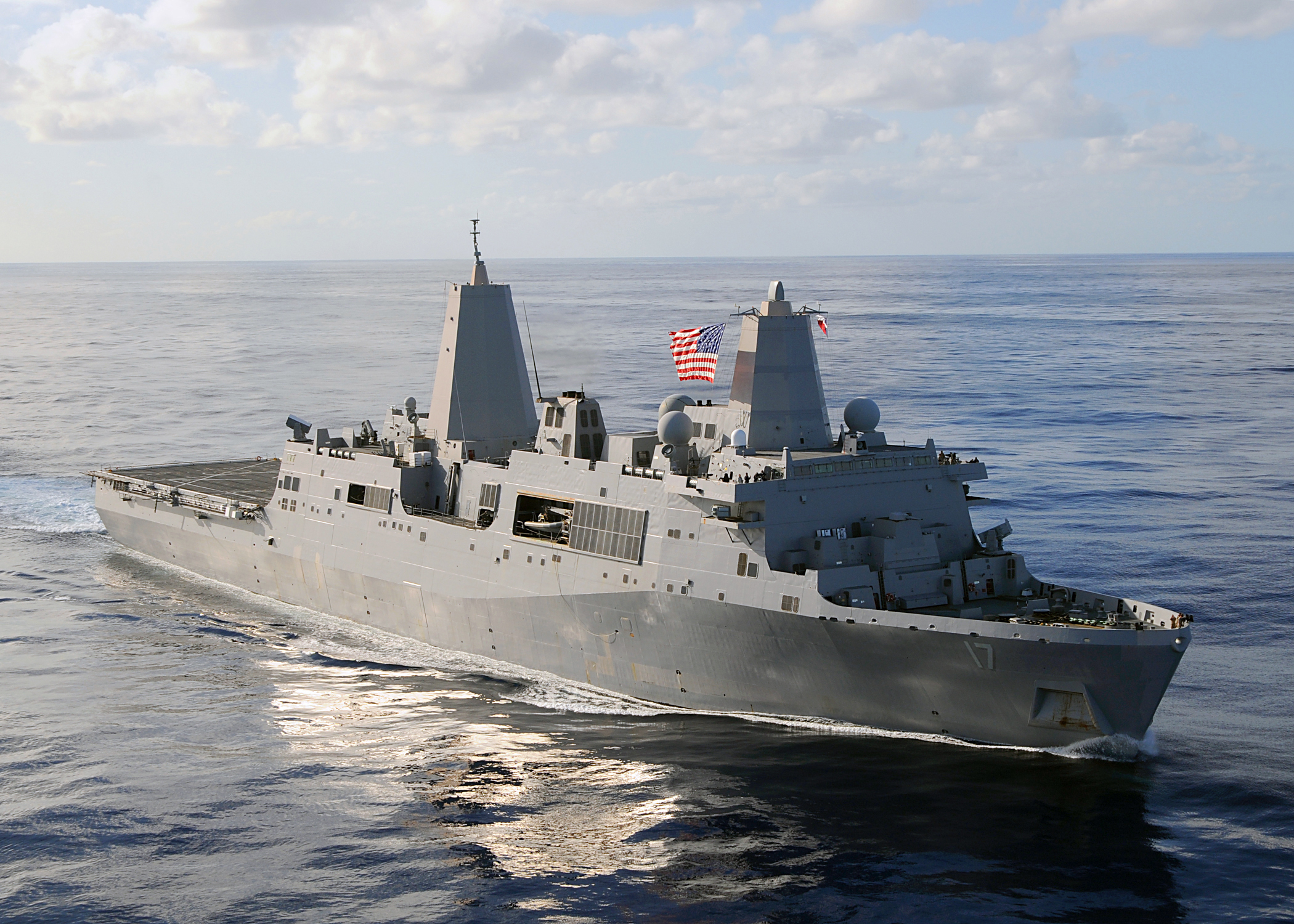 ATLANTIC OCEAN (Sept. 6, 2008) The amphibious transport dock ship USS San Antonio (LPD 17) transits the Atlantic Ocean. San Antonio is deployed as part of the Iwo Jima Expeditionary Strike Group supporting maritime security operations in the U.S. 5th and 6th Fleet areas of responsibility. (U.S. Navy photo by Mass Communication Specialist 2nd Class Jason R. Zalasky/Released)